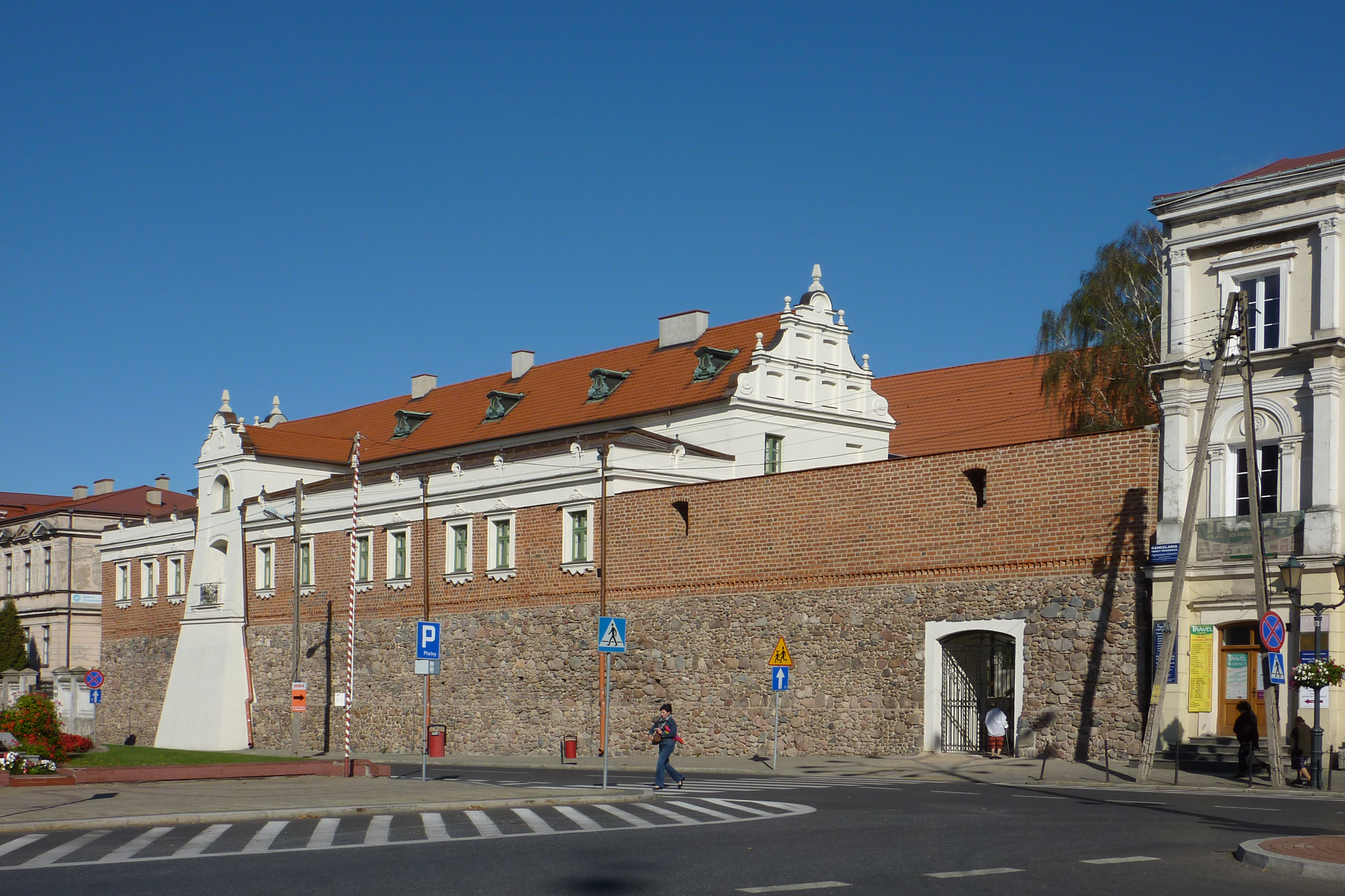 former Dominican nuns convent and city walls